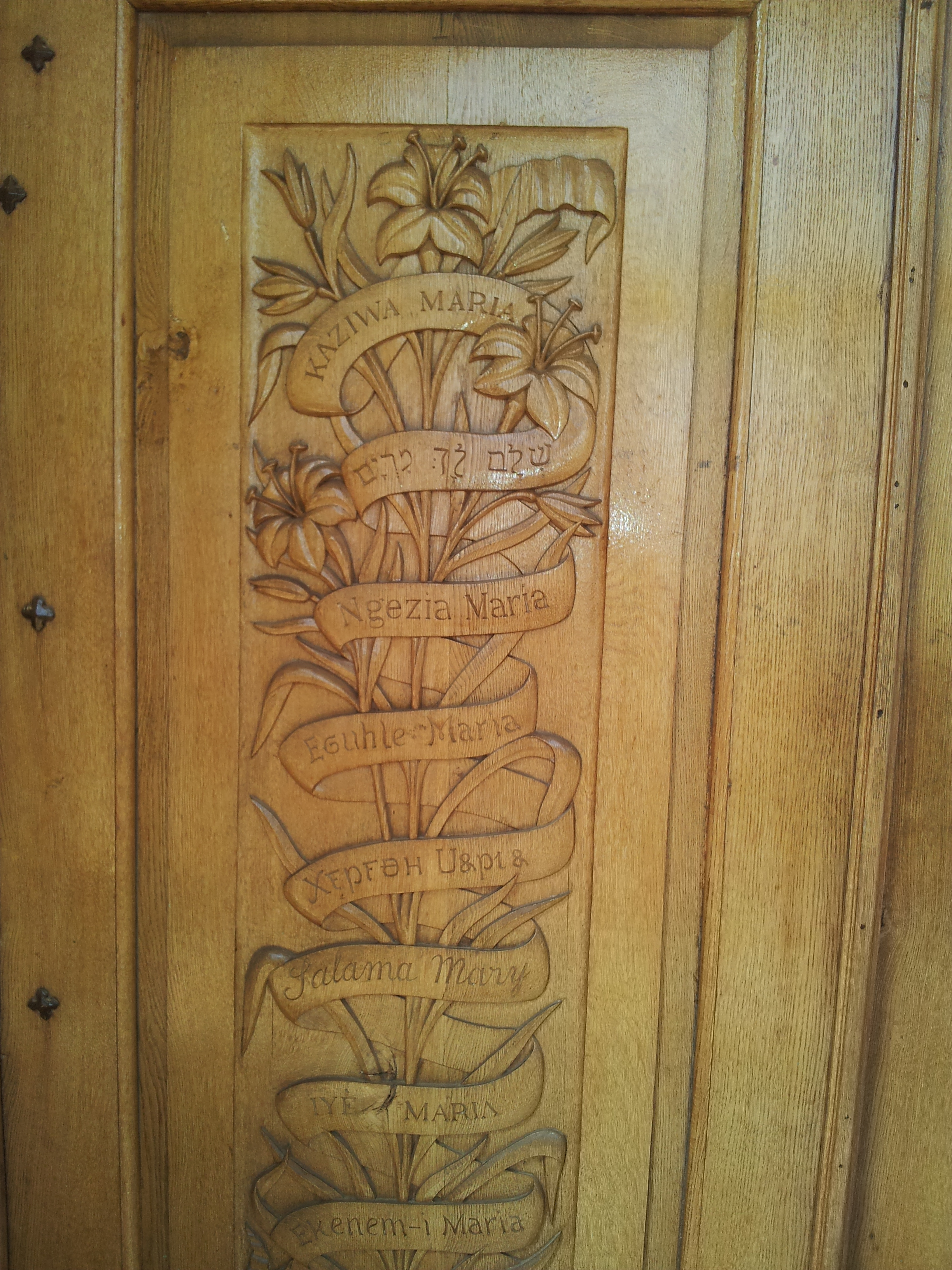 Monastery Deir Rafat has doors with phrase "Ave Maria" in many languagesץ On this door the second language, for example, is Aramaic